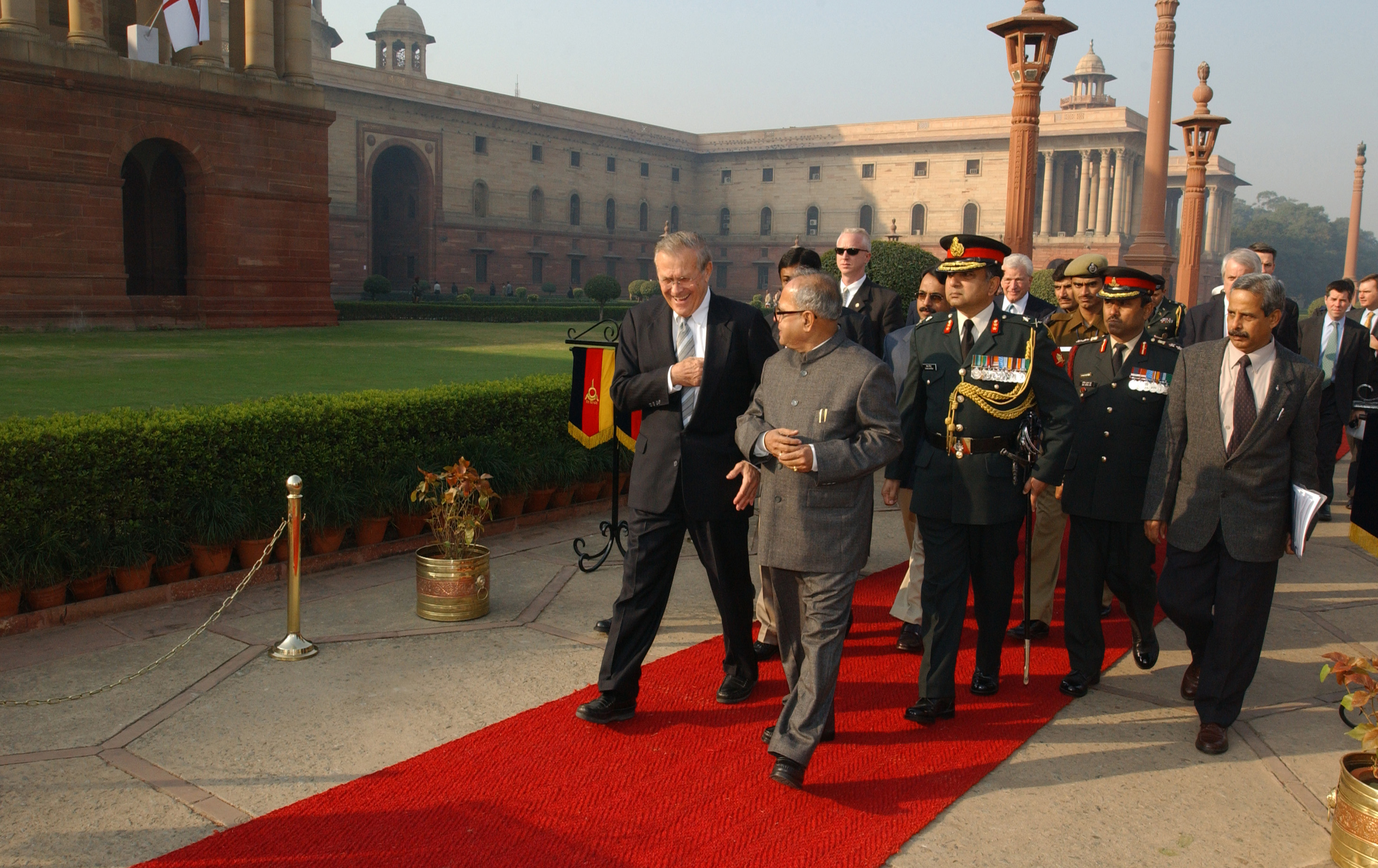 Minister of Defense Pranab Mukherhee (right foreground) escorts Secretary of Defense Donald H. Rumsfeld as he arrives at the South Block building in New Delhi, India, on Dec. 9, 2004. Rumsfeld is in India to meet with India's senior leadership to discuss defense issues of mutual interest and the war on terror.